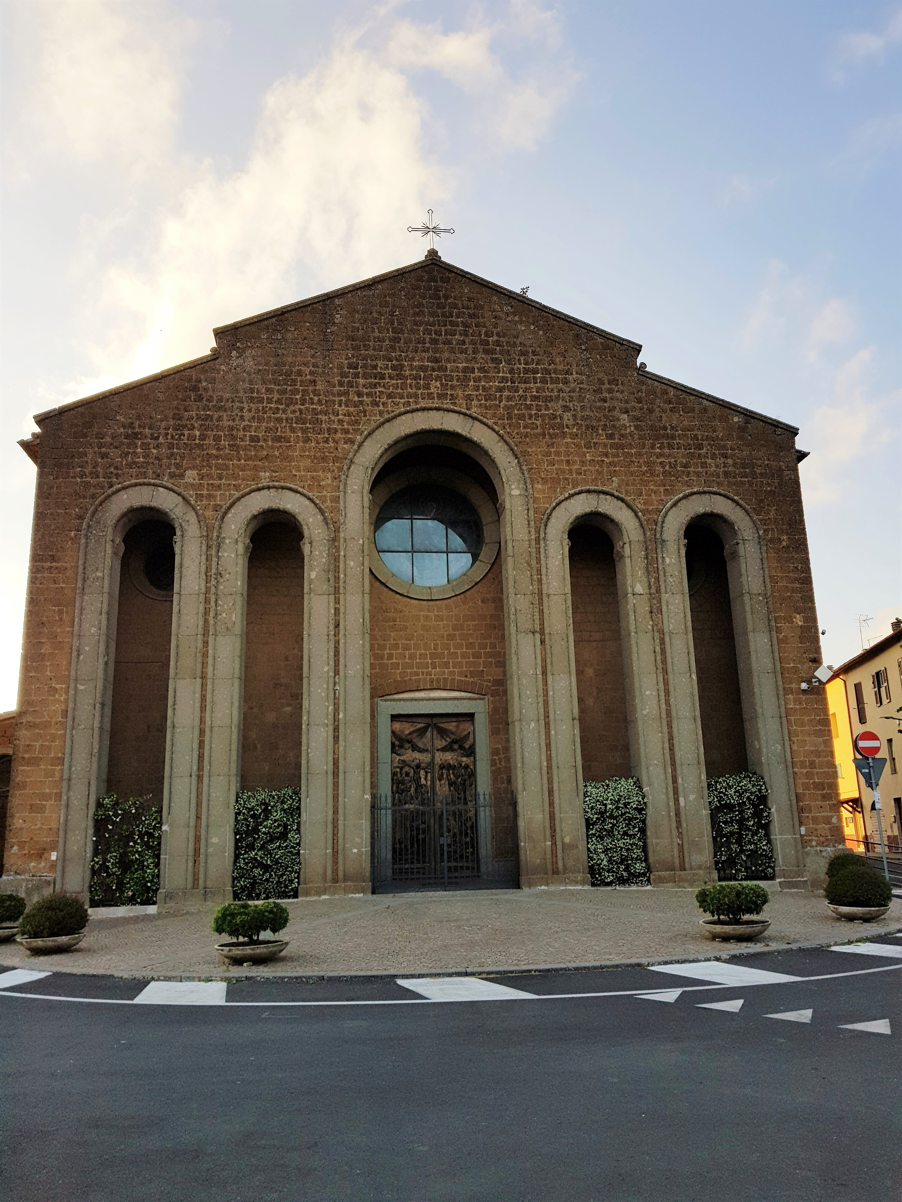 Chiesa Santa Maria del Rosario nuova.